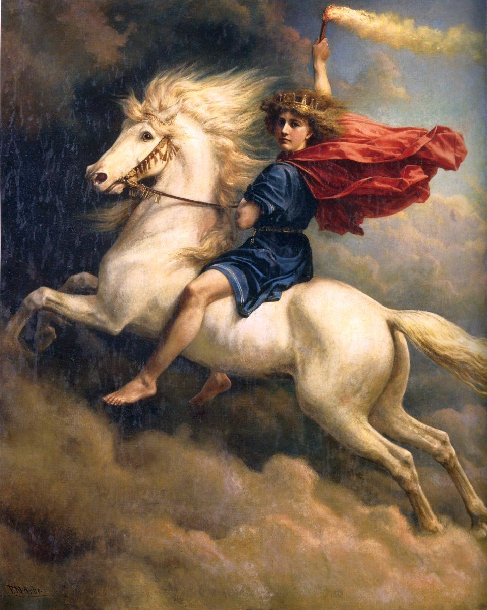 Dagr riding Skinfaxi